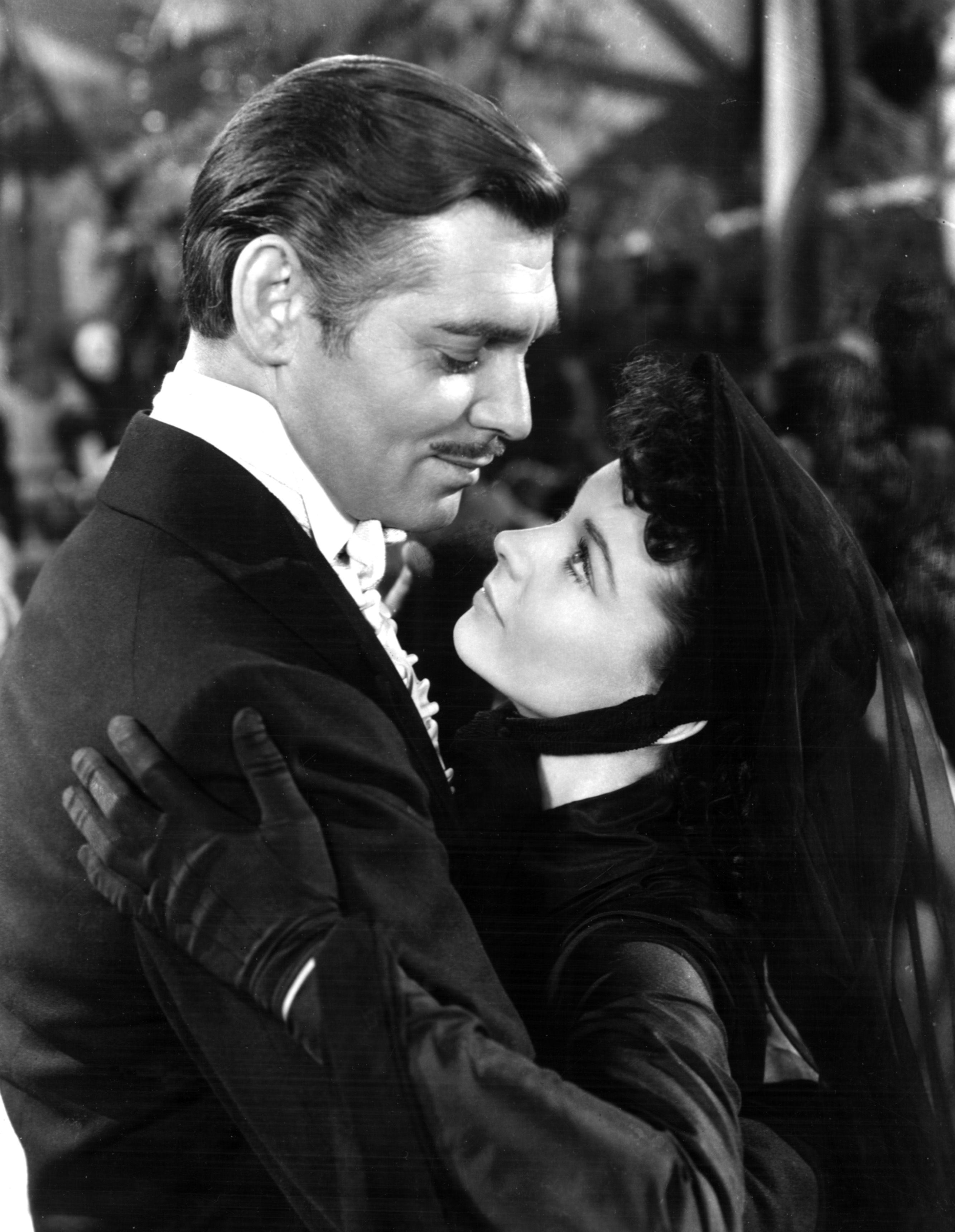 Photo of Clark Gable and Vivien Leigh from Gone With the Wind.